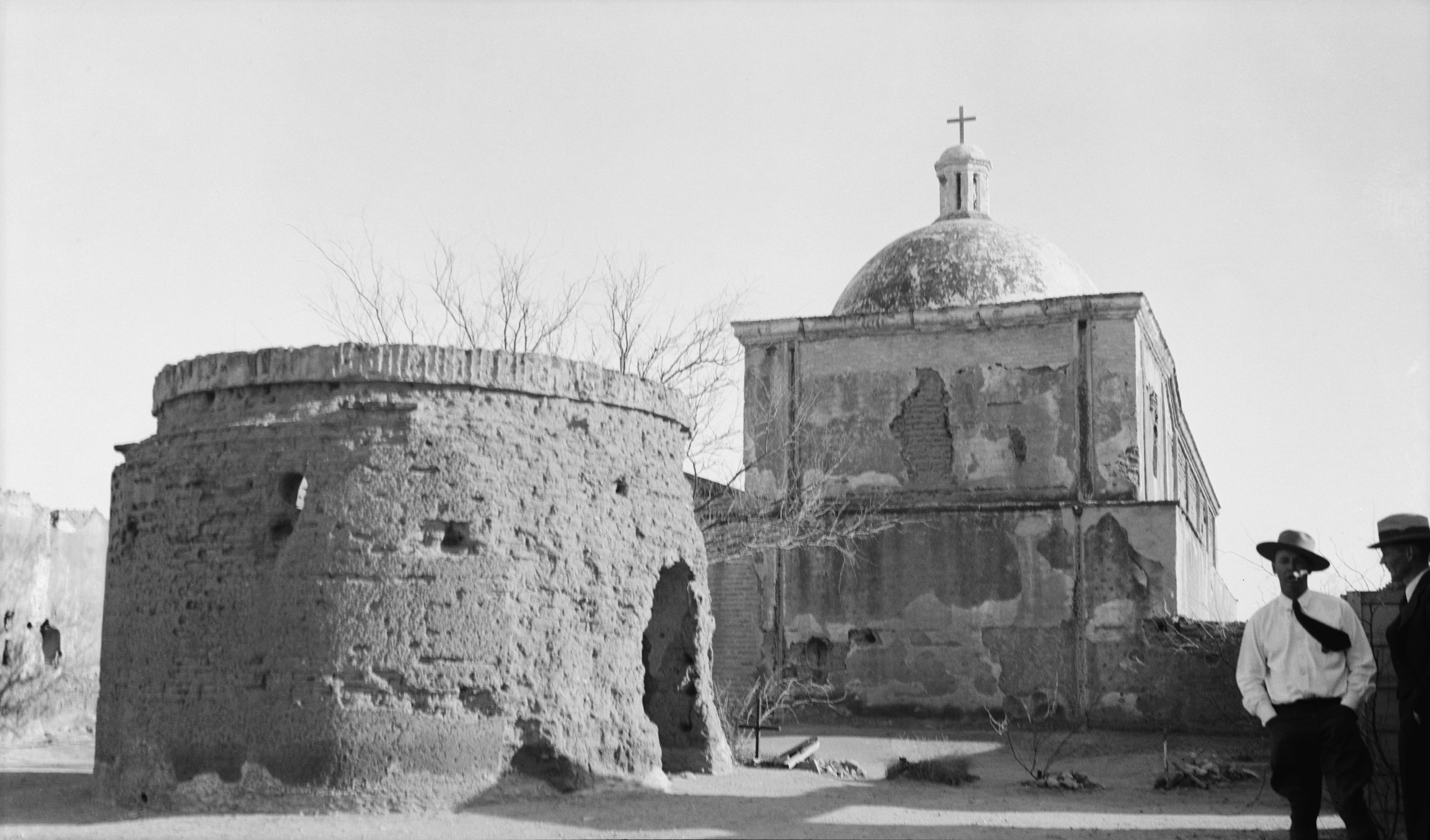 Mission San José de Tumacácori (view of rear) — located within Tumacacori National Monument, near Nogales, in southern Arizona. 1937 image: HABS—Historic American Buildings Survey of Arizona.